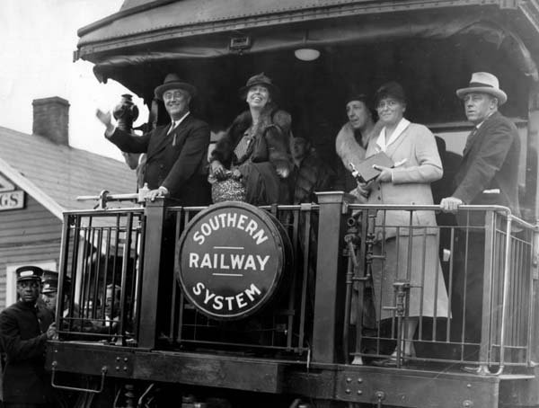 Franklin D. Roosevelt waves from the rear platform of a rail car